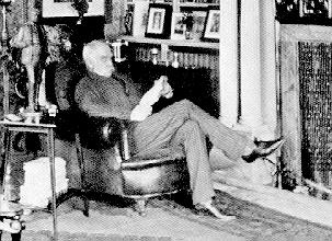 W. S. Gilbert in his library, c. 1905